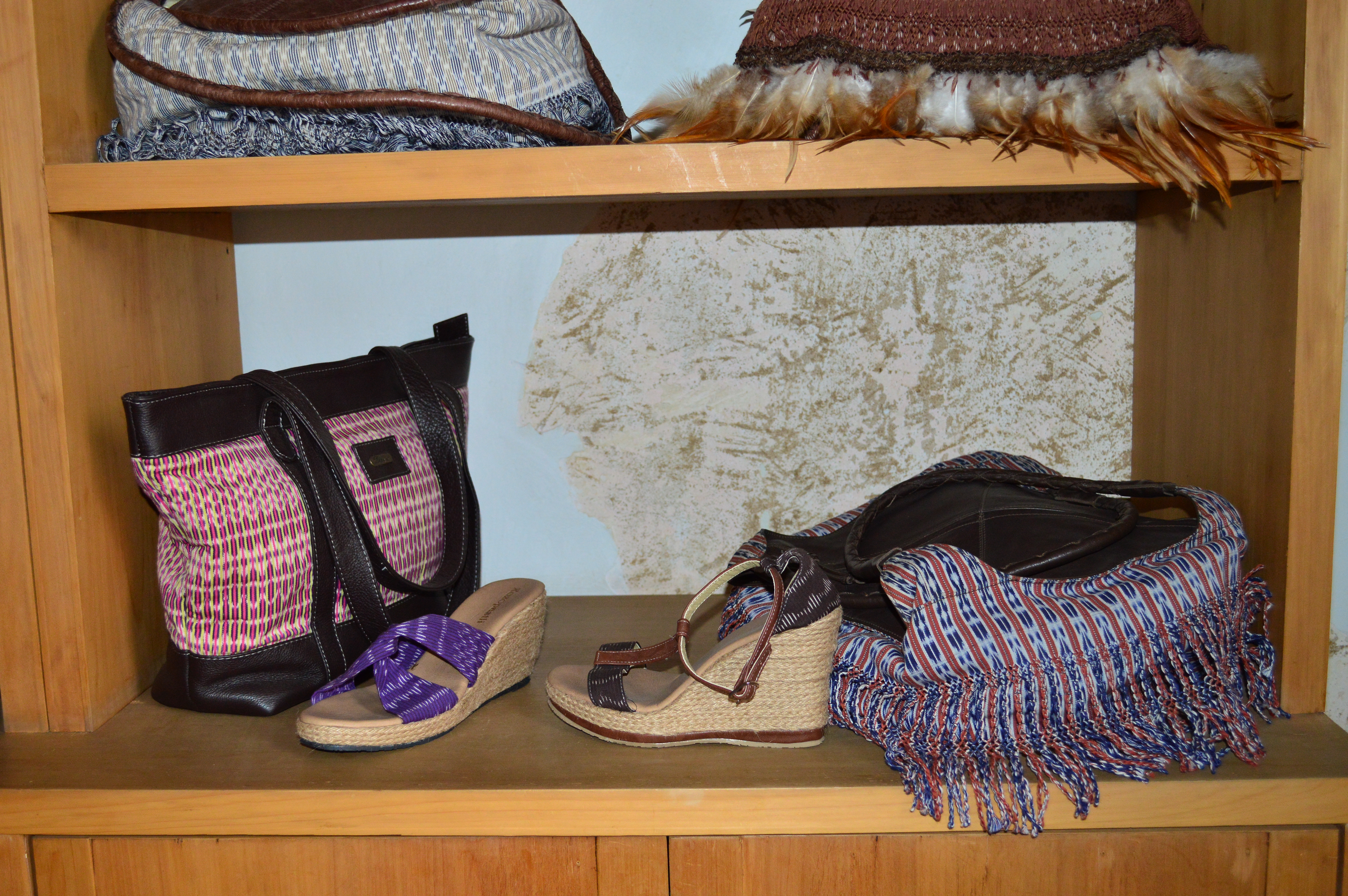 Leather purses and shoes with ikat dyed fabric at the Rapacejos store in Malinalco, State of Mexico